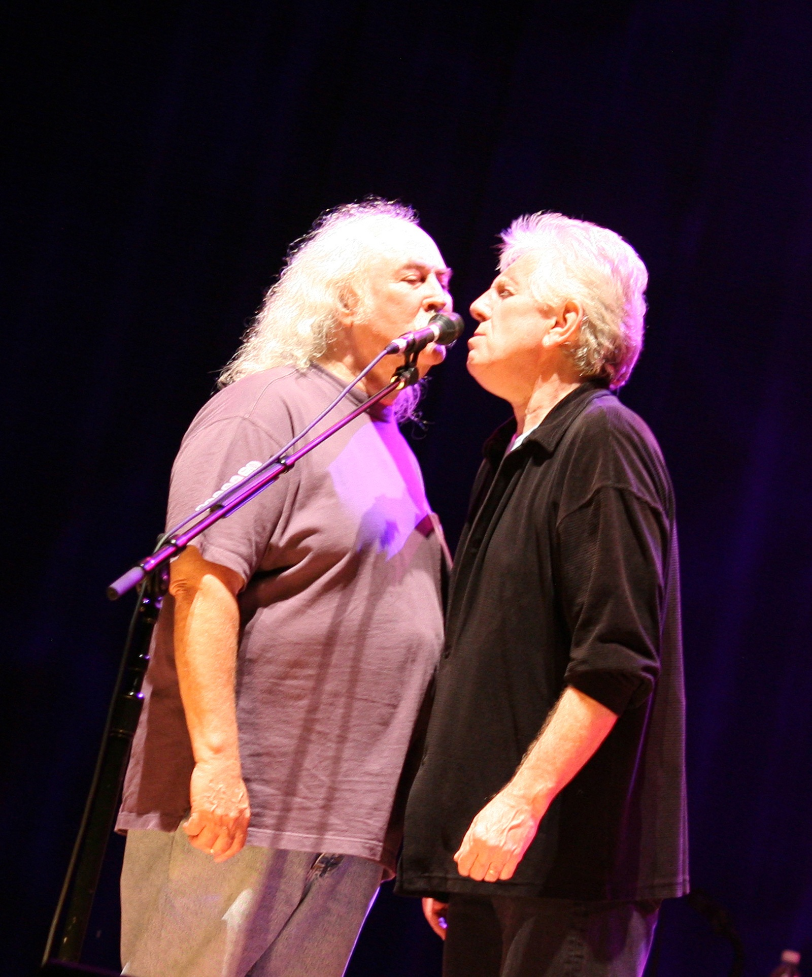 David Crosby and Graham Nash singing during a tour in 2006, as part of Crosby, Stills, Nash and Young